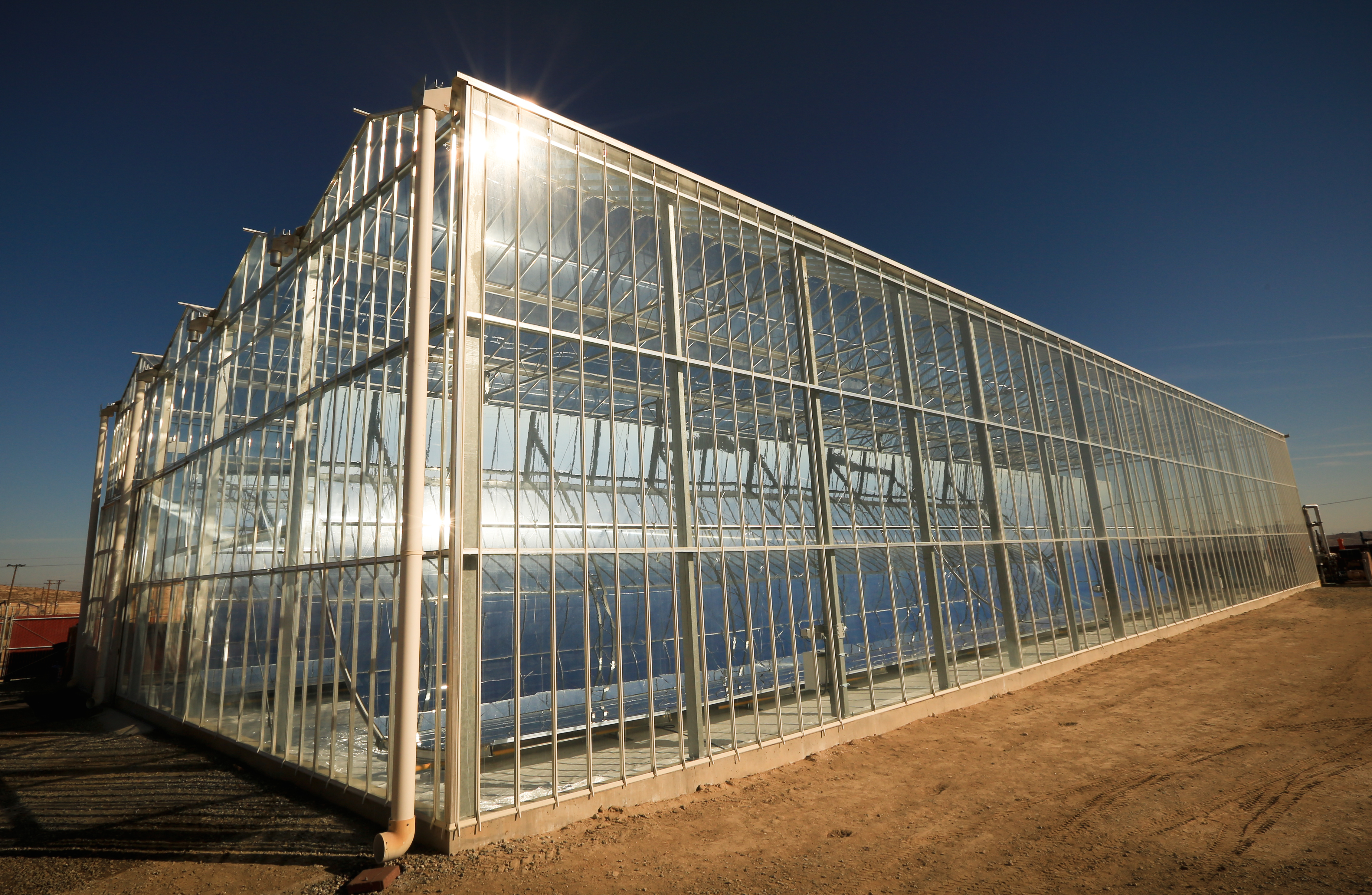 An up-close photo of a solar enhanced oil recovery site in Kern County, CA, developed by GlassPoint Solar.